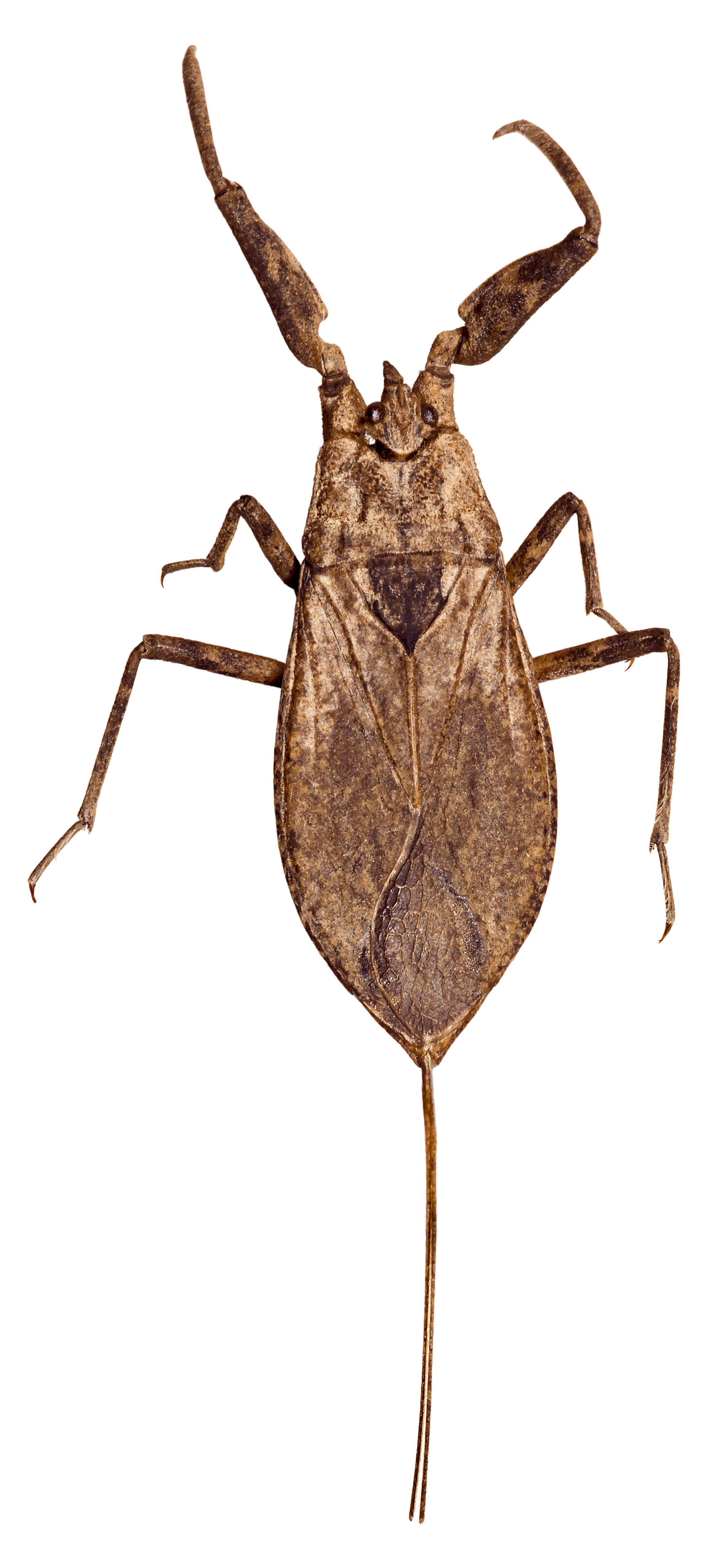 Water scorpion. Dorsal side.